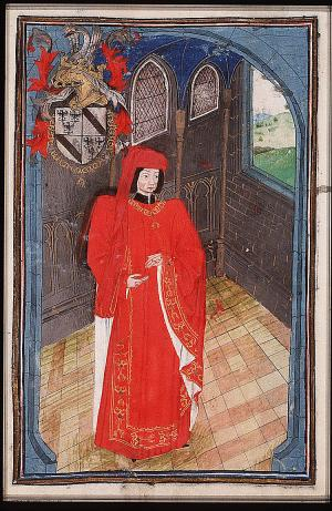 Statuts, Ordonnances et Armorial de l'Ordre de la Toison d'Or (Statutes, Ordonnances and armorial of the Order of the Golden Fleece) Place of origin, date: Southern Netherlands; 1473. Added sections: Southern Netherlands; 1478 or shortly after and 1491 or shortly after Material: Vellum, ff. 86, 249x187 (167x106) mm, 23 lines, littera cursiva (lettre bourguignonne). French. Binding: 18th-century brown leather Decoration: 1 full-page miniature (170x115 mm) with border decoration; 92 miniatures (185/155x120/100 mm); 1 historiated initial (80x90 mm) with border decoration; decorated initials with border decoration (ff., Added section: miniatures ; 4 drawings for miniatures (not finished) Provenance: Presented in 1473 by Gilles Gobet, King of Arms of the Order of the Golden Fleece, to Charles the Bold, Duke of Burgundy and the other Knights during the Chapter of the Order held at Valenciennes; Treasure of the Golden Fleece, Brussls; taken away by the Treasurer C.-F. Humyn (d. 1735) or his daughter C.Ch. de Corte; by legacy to her daughter M.-L. de Corte, wife of Ph.-E. de Poederlé; purchased in 1781 at the Poederlé sale by G.-J- Gérard of Brussels; acquired in 1832 as part of the Gérard collection (no. A 27)